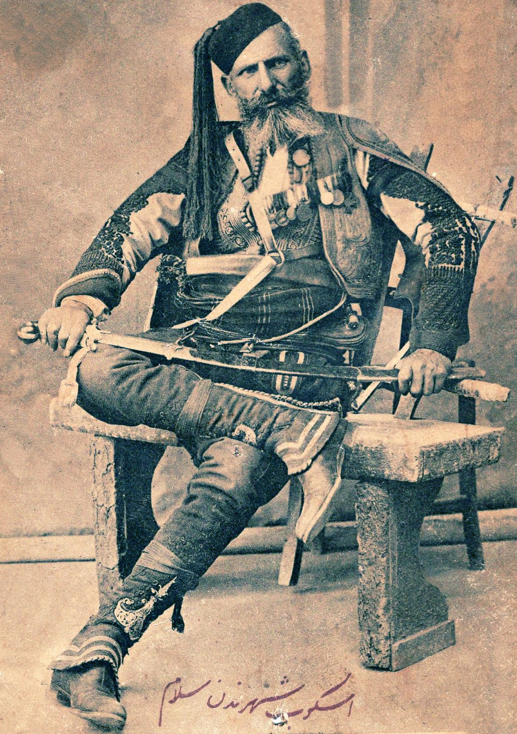 Arambashi Micko This media file is produced by Wikipedian in Residence in Category:Wikipedian in Residence at DARM in 2016.